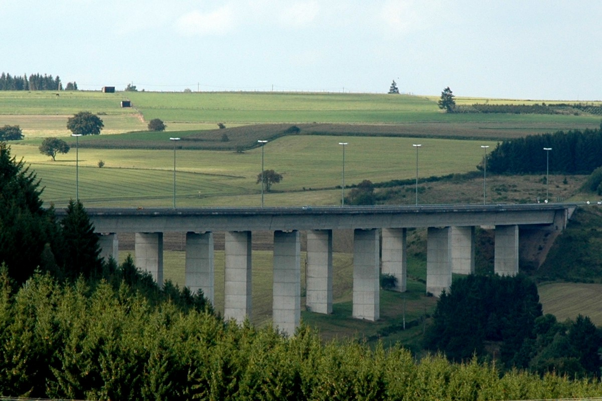 Our Valley Bridge on A27 (Belgium) / A60 (Germany)